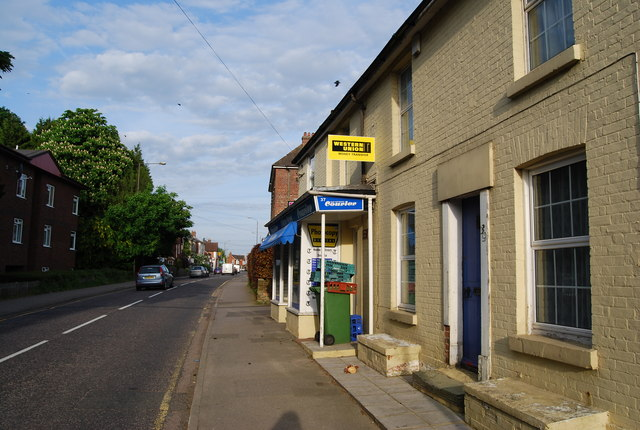 View east along Pembury High St